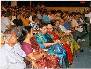 During the V.K.Murhy's felicitation ceremony, at The MA,Mumbai